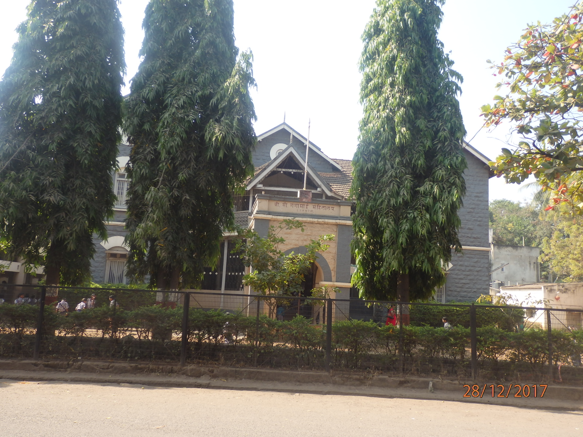 Gangamai Vidyamandir, Ichalkaranji